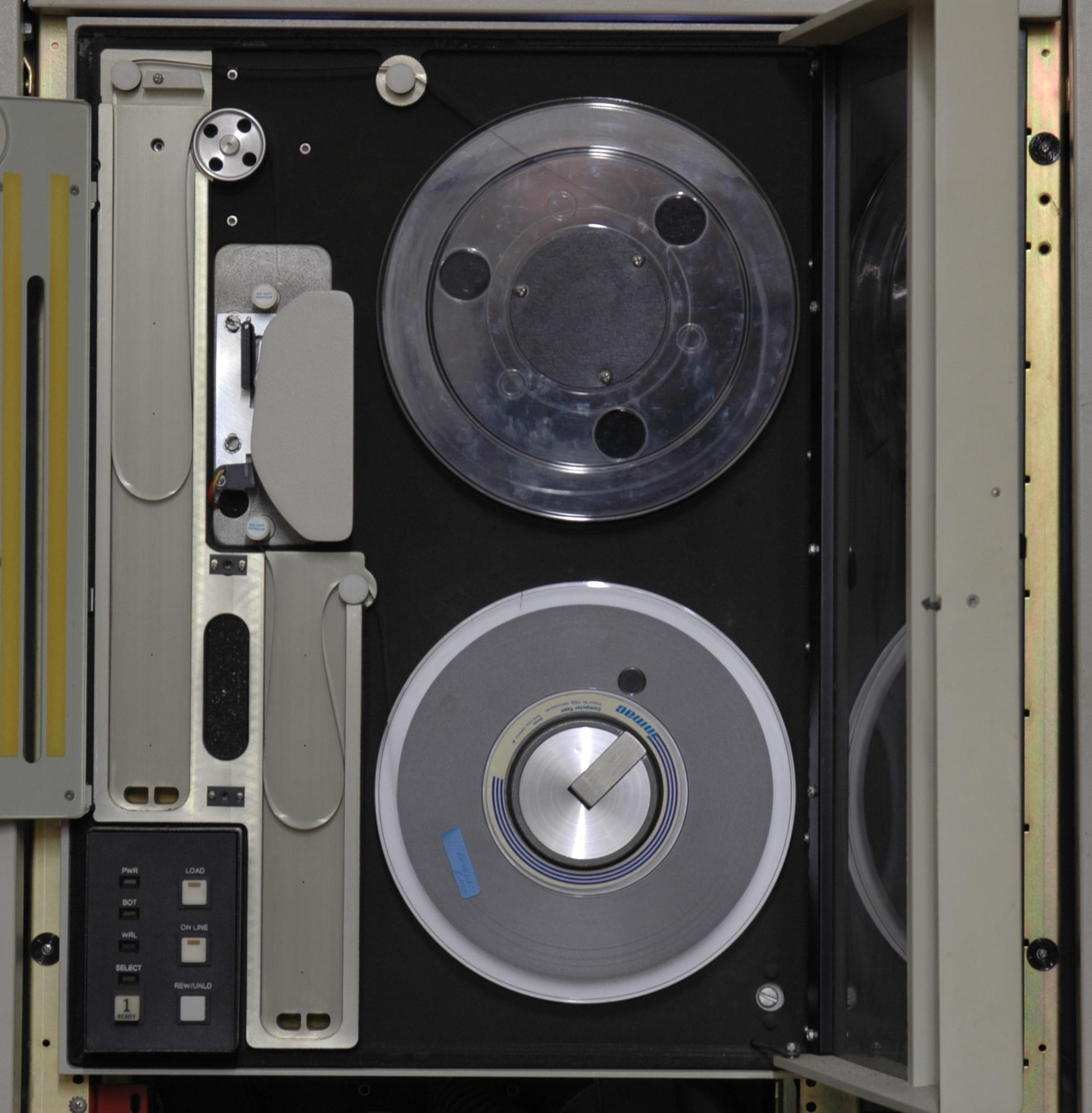 Inside a DEC TE16 9-track tape drive, showing the tape path through the vacuum columns. From the collection of the RCS/RI.